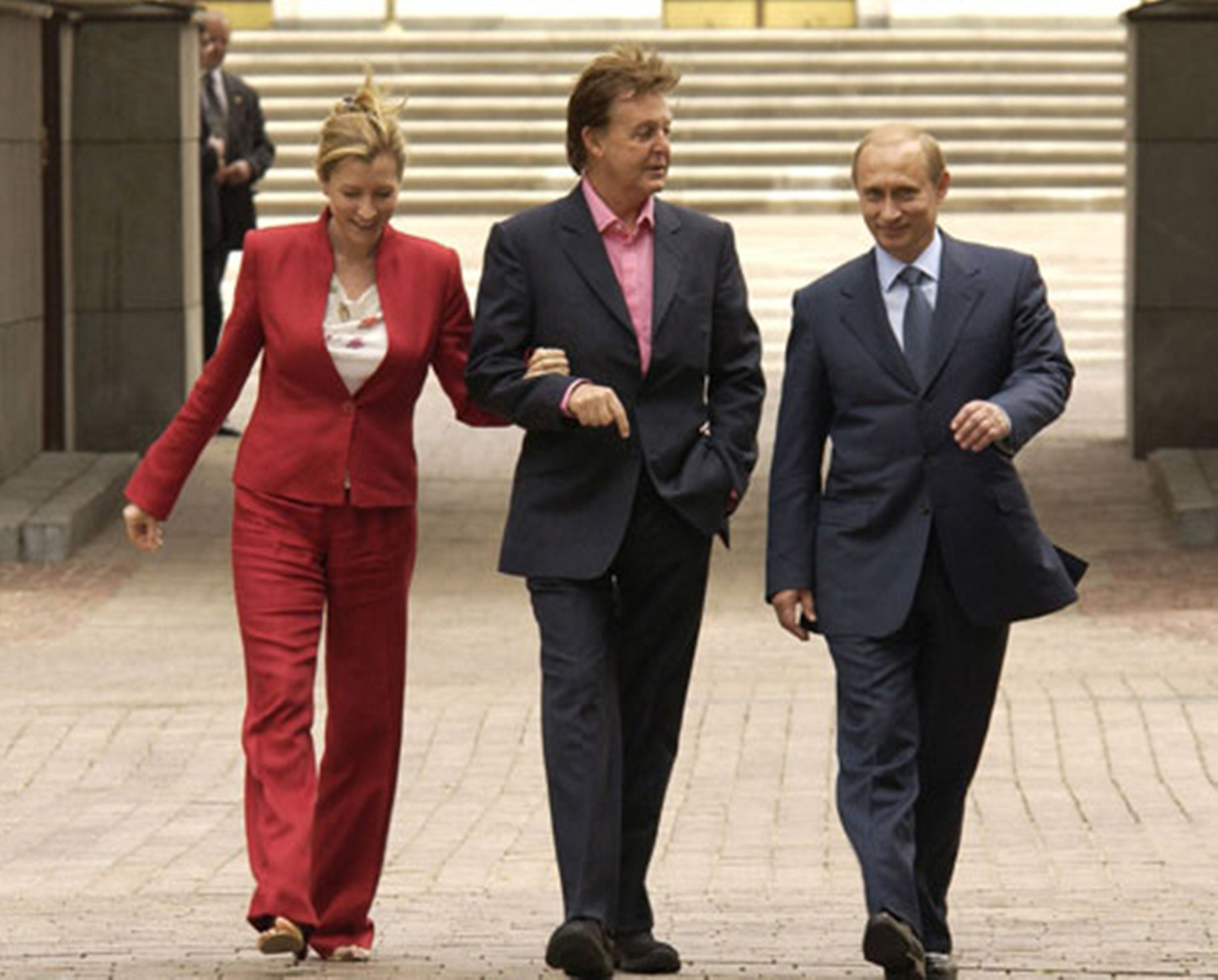 Russian President Vladmir Putin (right) meets with singer and composer Paul McCartney and his wife Heather, who have arrived in Moscow for the time, in the Kremlin.